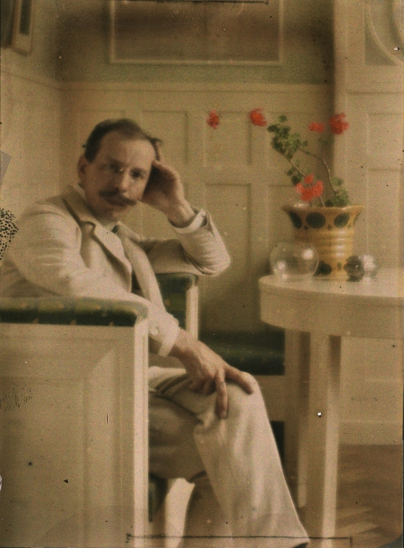 Selfportrait of Heinrich Kühn, Autochrome, 1907